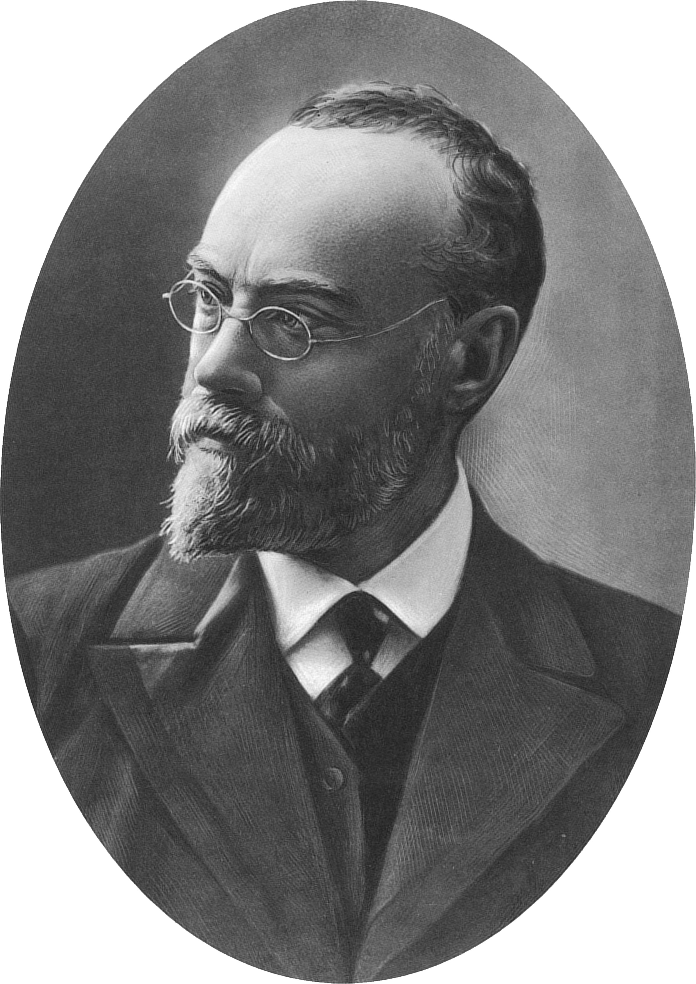 Nikolay Nikanorovich Dubovskoy (December 17, 1859 – February 28, 1918), a Russian landscape painter. A mirror horizontal version of the image File:Nikolay Dubovskoy02.jpg